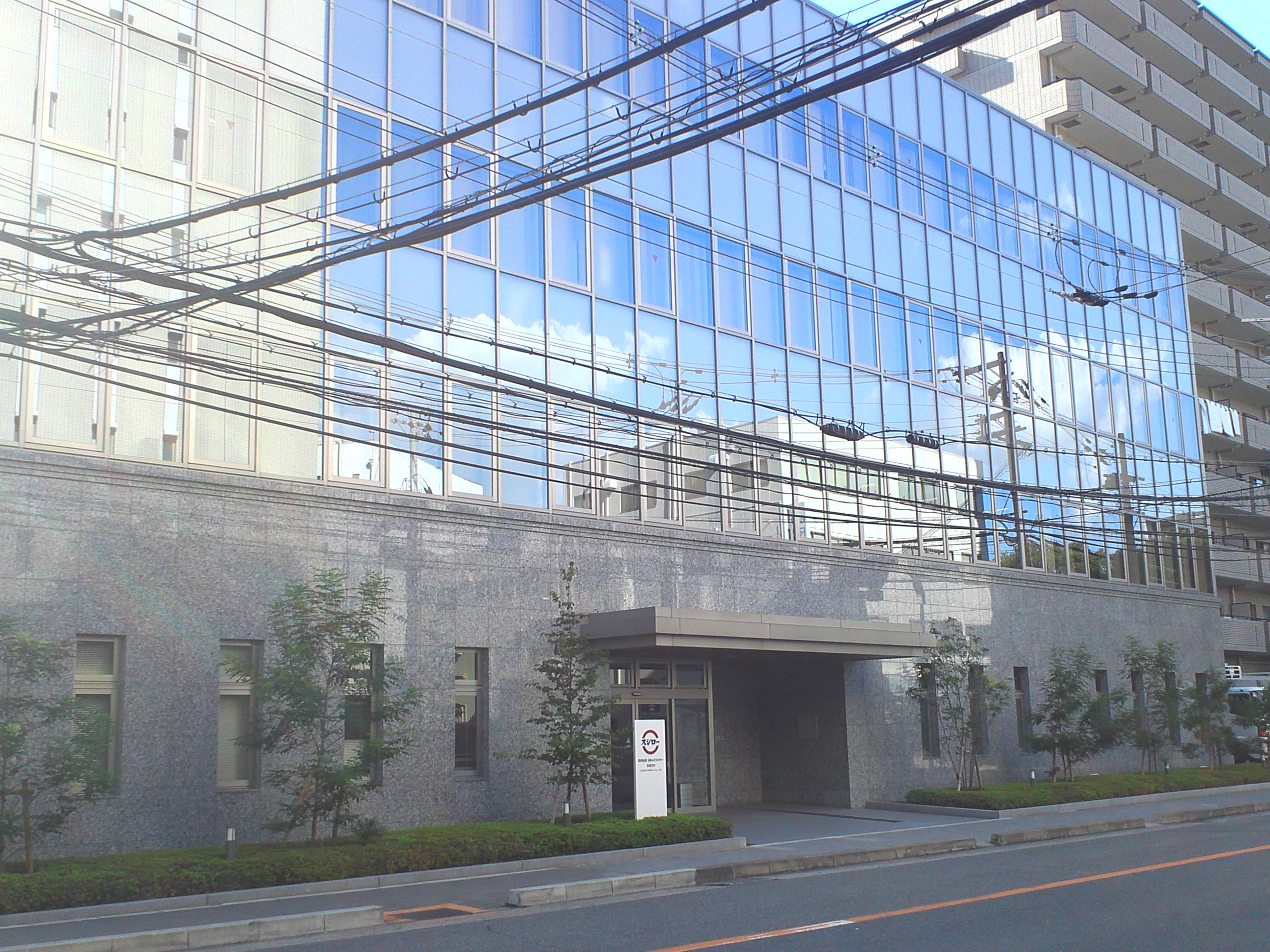 Headquarters of Akindo Sushiro Co.,Ltd. , Osaka Japan